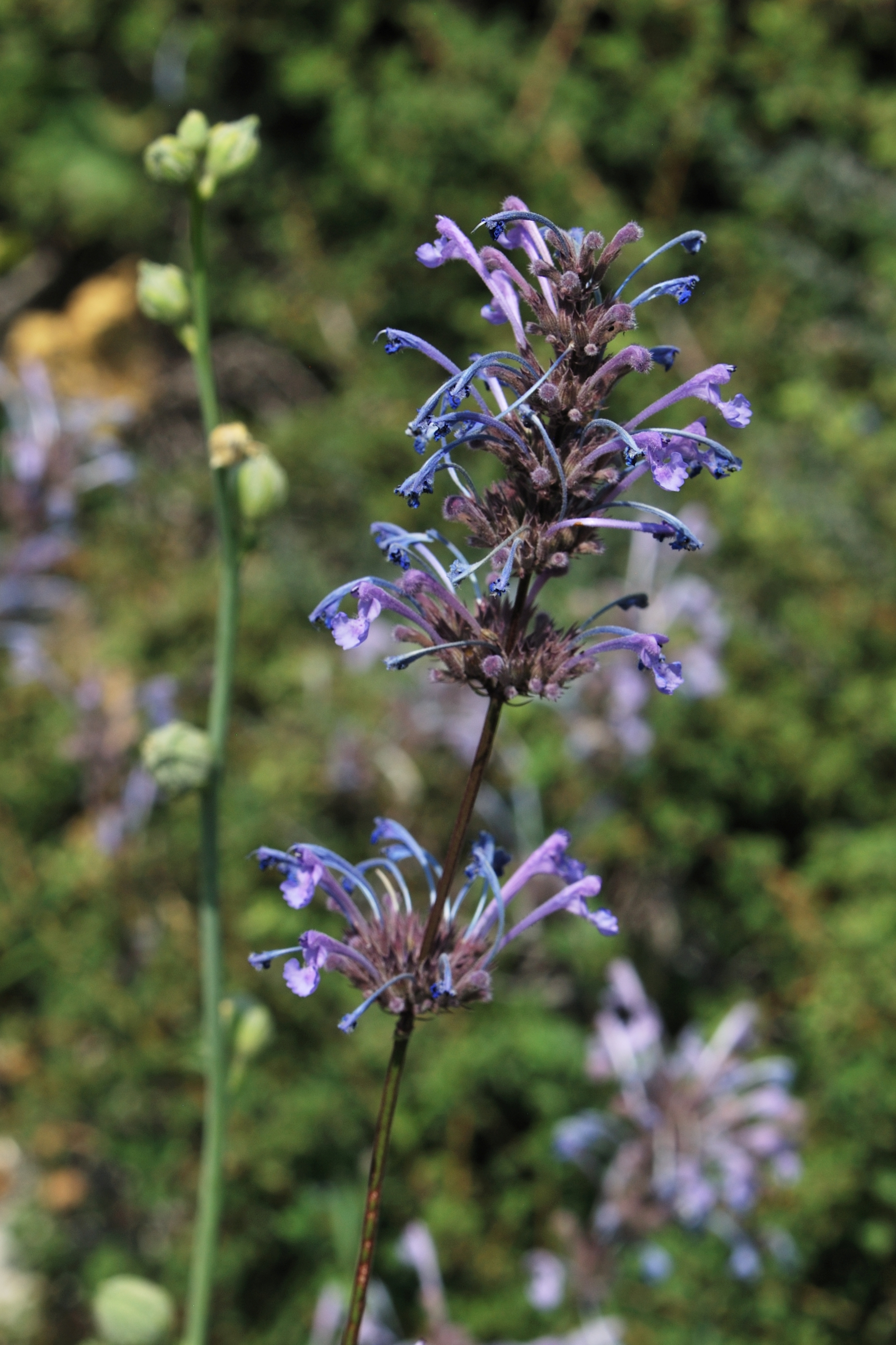 Nepeta cilicica Boiss. ex Benth., with buds of Alcea sp. in background, Mount Hermon, Israel/Syria, July 9, 2011.